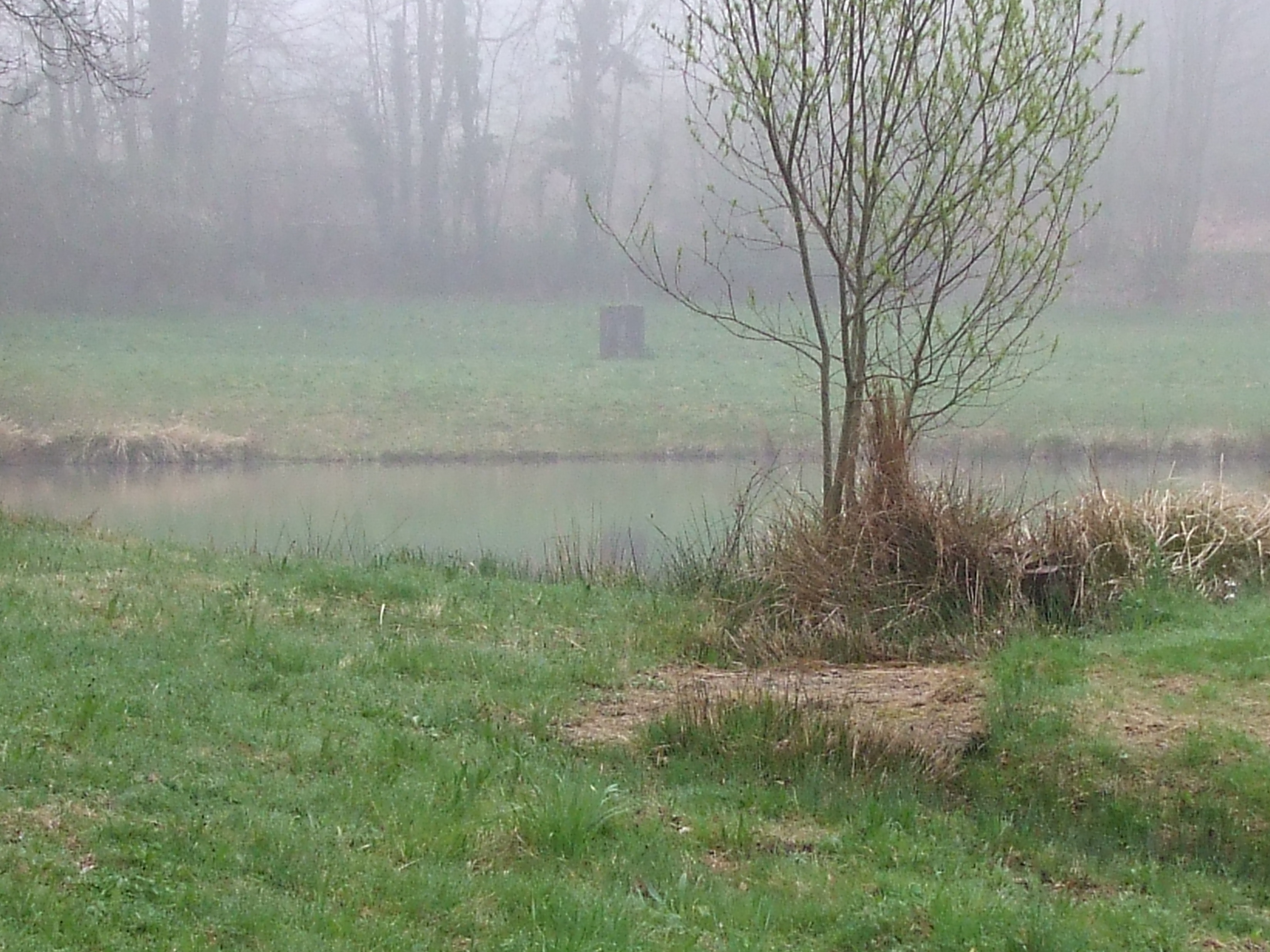 Source of the Tardoire, Pageas, Haute-Vienne, France